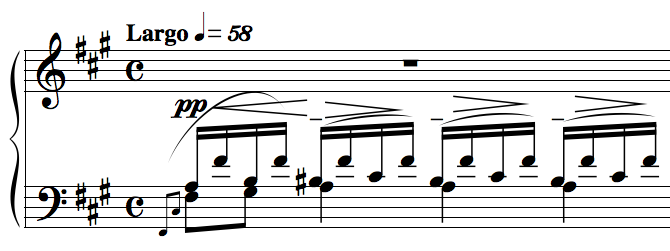 The first few measures of Preludes, Op. 23, No. 1. The set, composed by Sergei Rachmaninoff in 1901 was published before 1923, and thus is in the public domain.